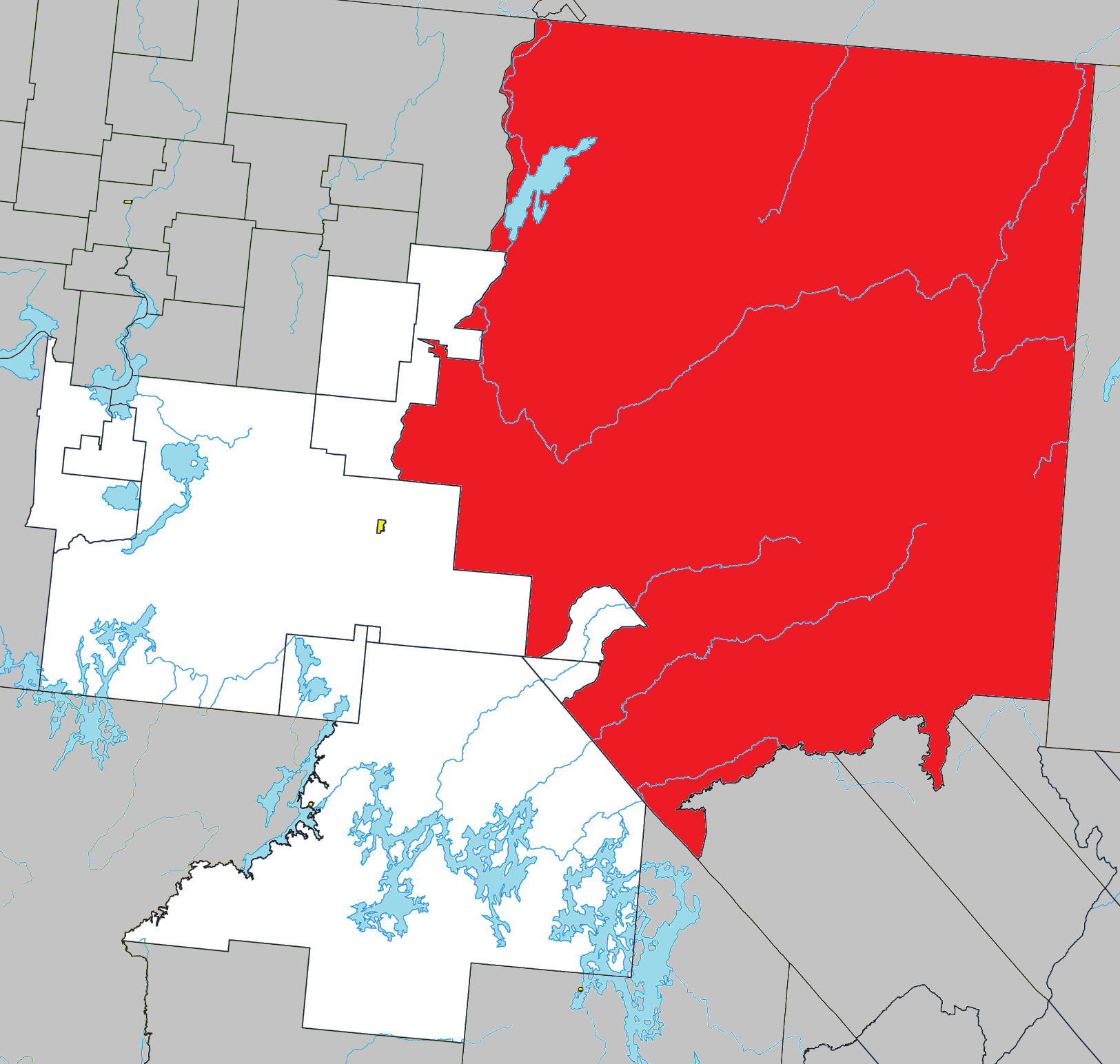 Location of Senneterre (city), Quebec within La Vallée-de-l'Or Regional County Municipality.